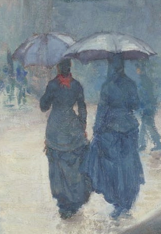 Paris Street; Rainy Day, detail